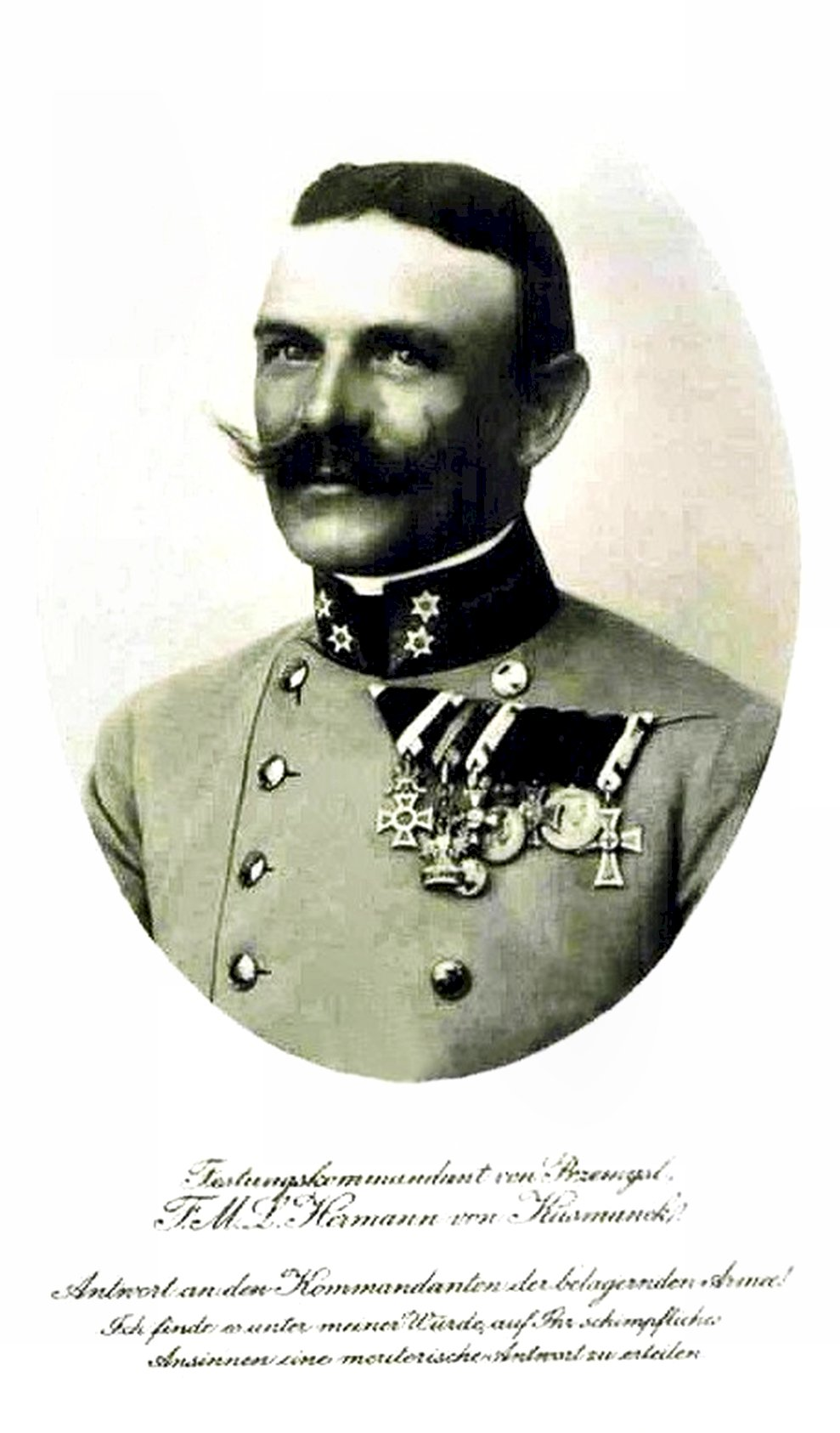 Hermann Kusmanek von Burgneustädten